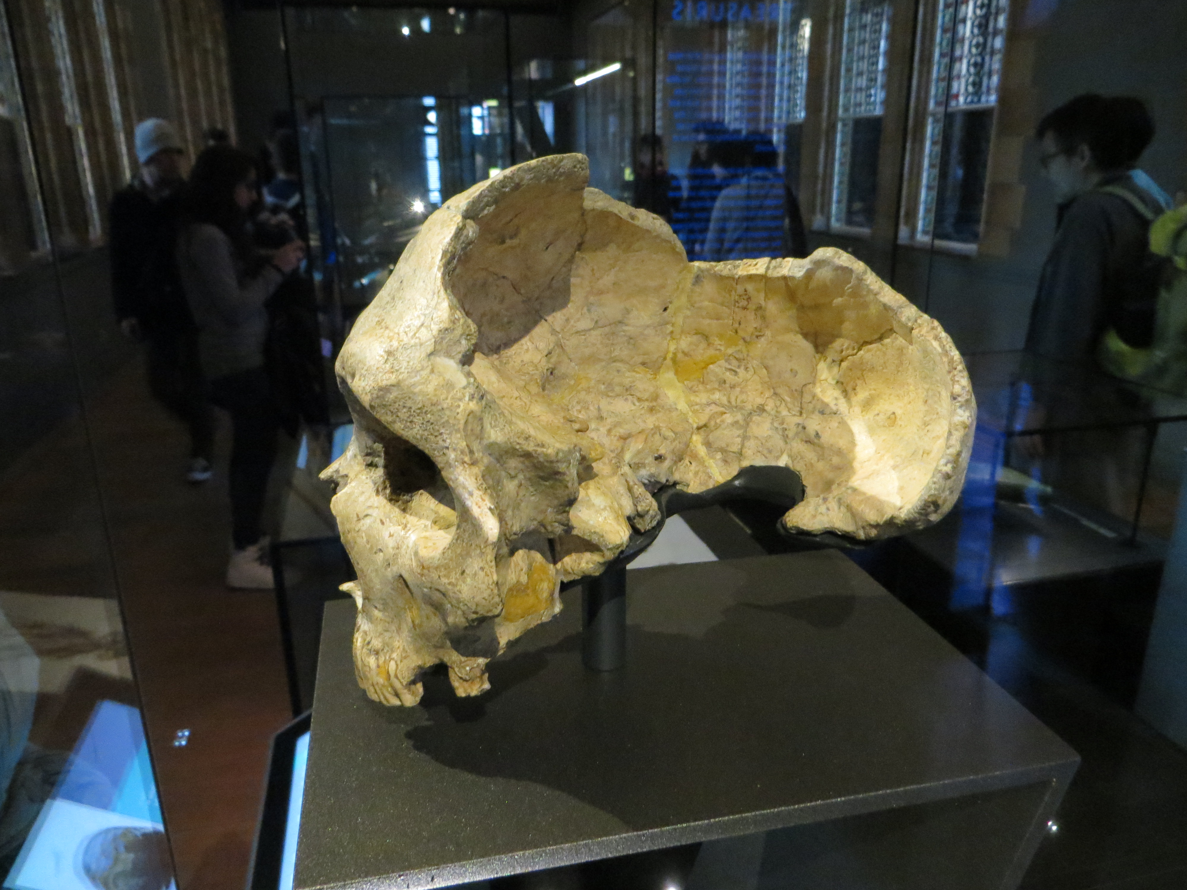 Neaderthal skull from Gibraltar in the Natural History Museum, London